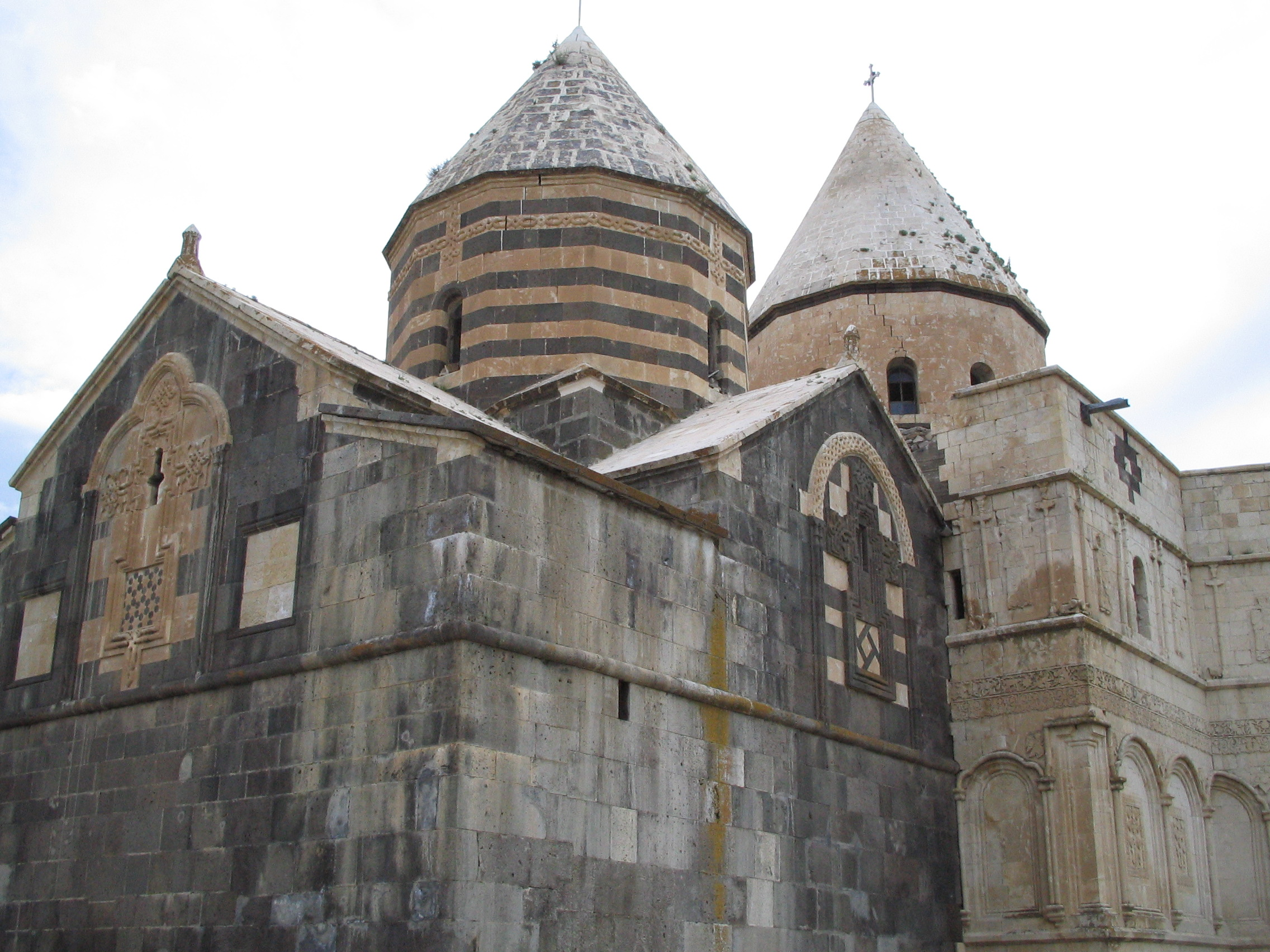 Qara Kelisa (The black Church) near Chaldoran, West Azerbaïdjan, Iran.